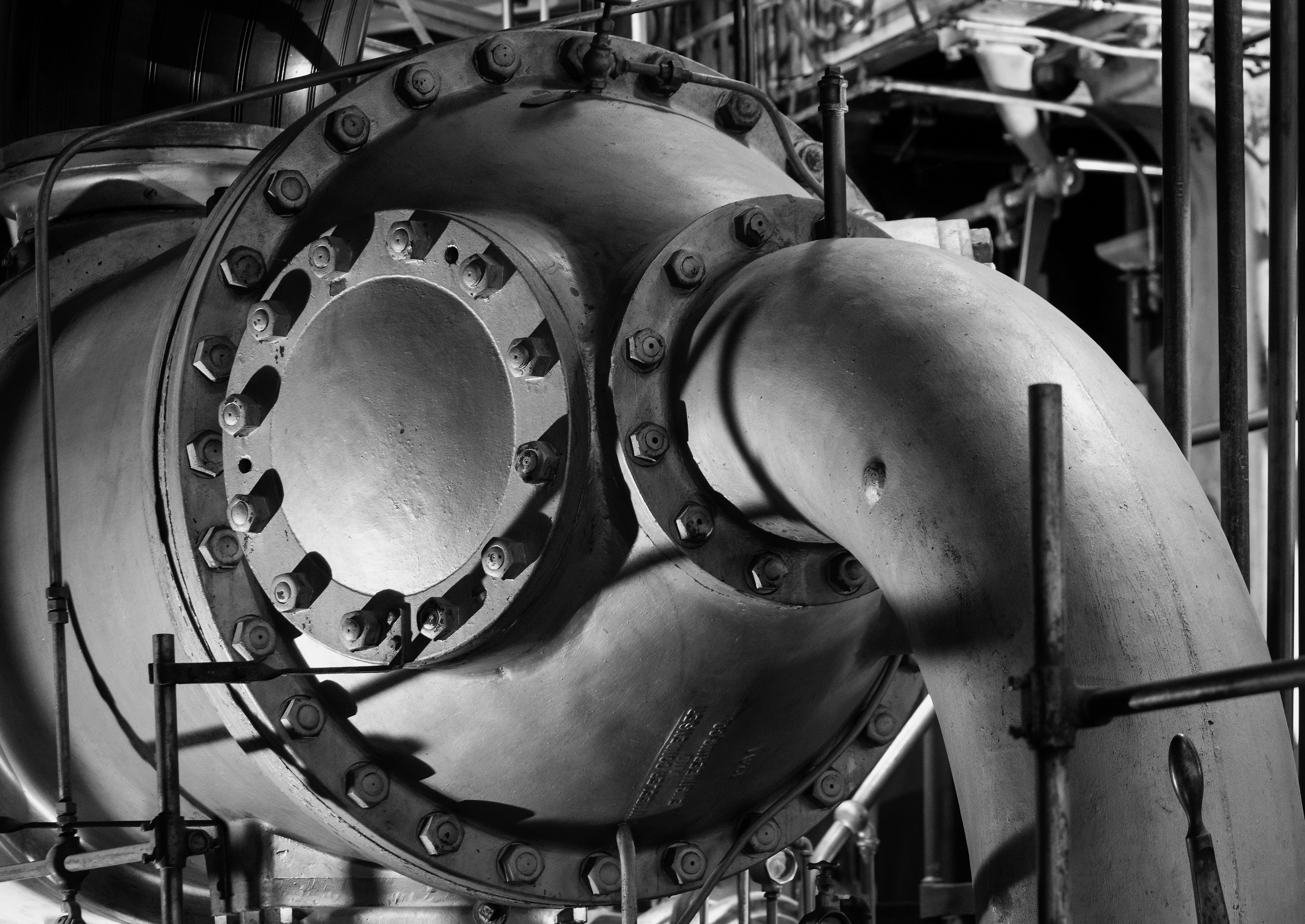 Waterworks Museum in Boston